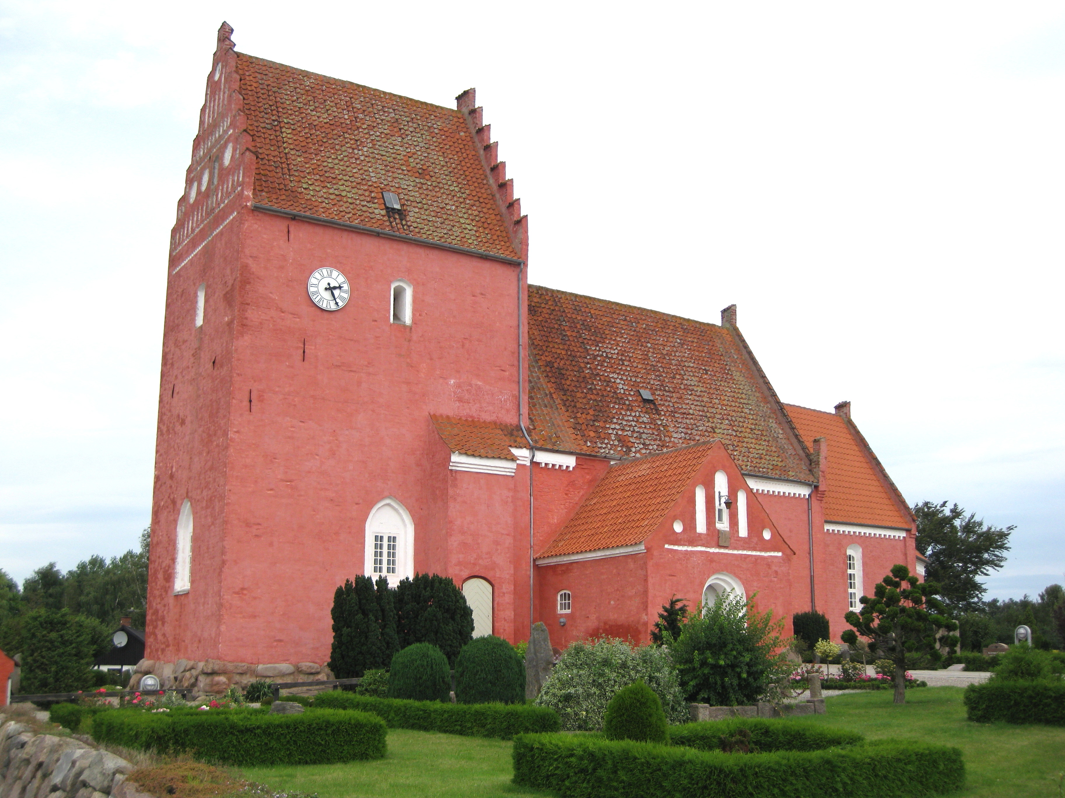 The church "Eskilstrup Kirke" in the small town "Eskilstrup". The town is located on the island Falster in east Denmark.